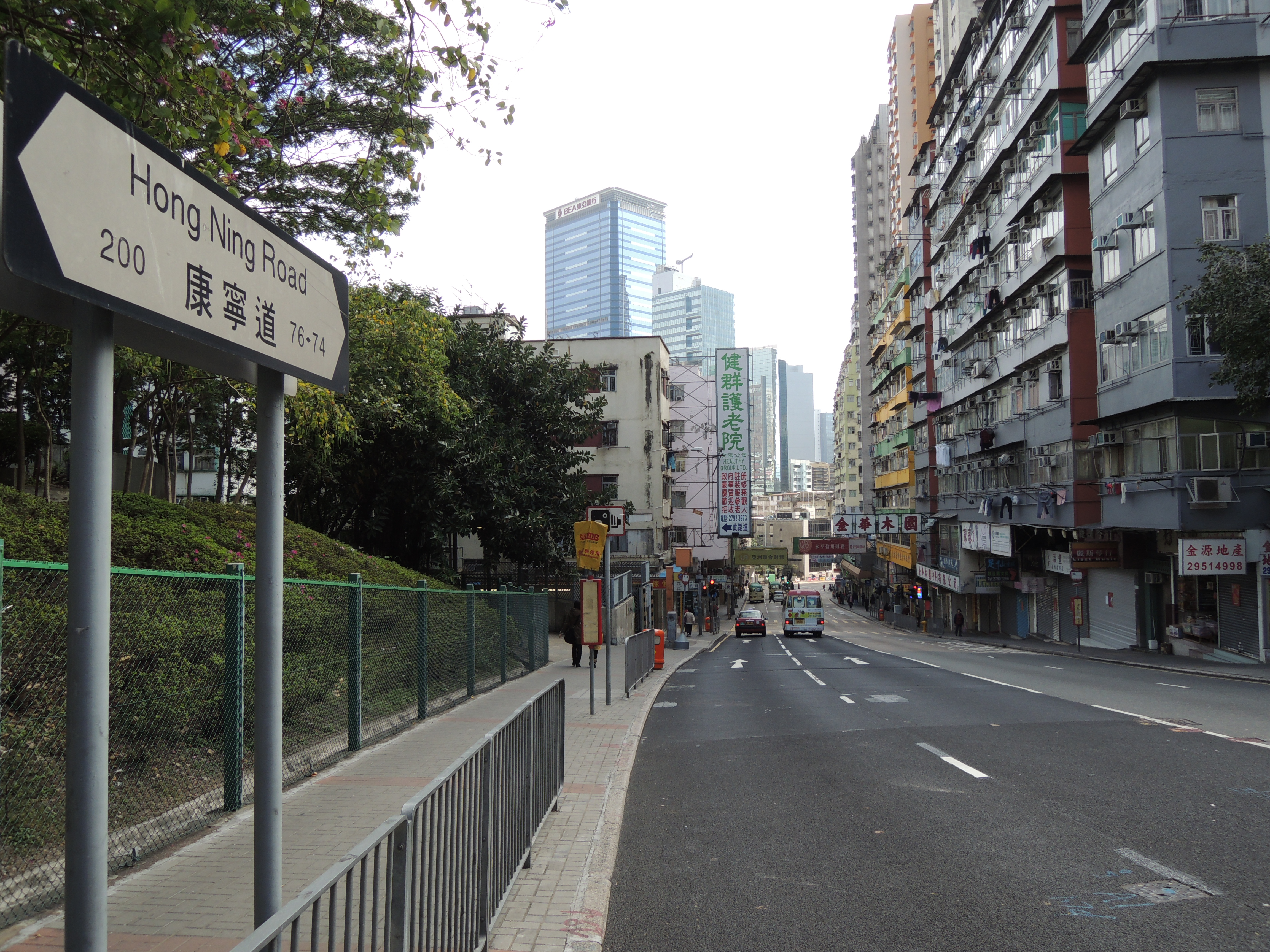 Hong Ning Road (Kwun Tong, Kowloon, Hong Kong) 中文（香港）: 康寧道 (香港九龍觀塘)